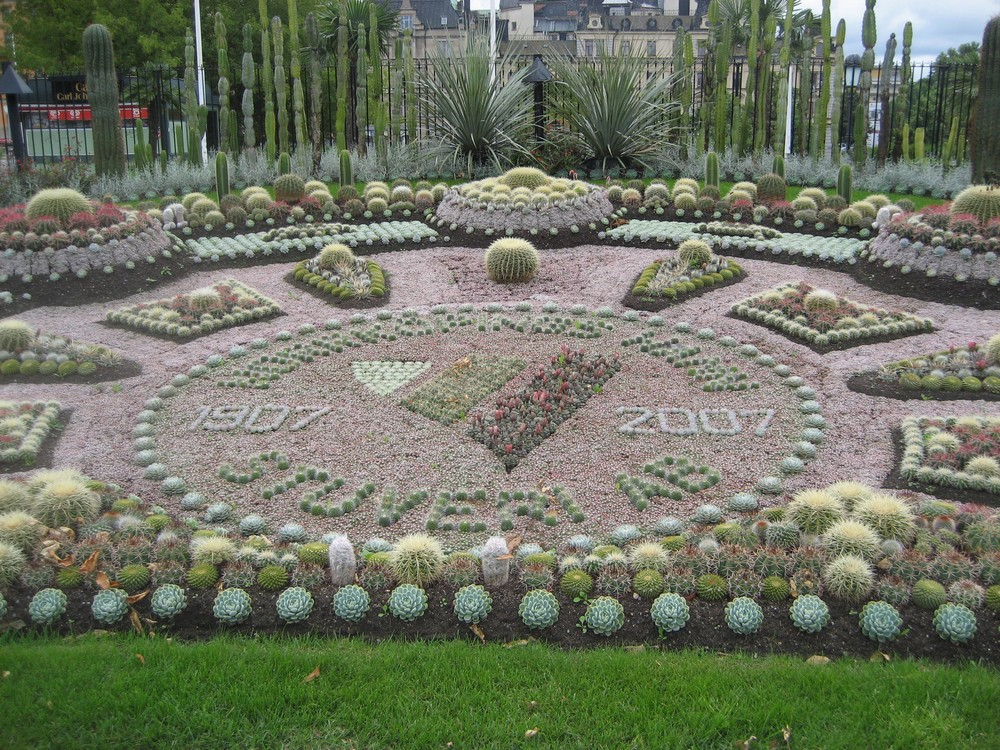 Cactae in Norrköping, Sweden, July 2007